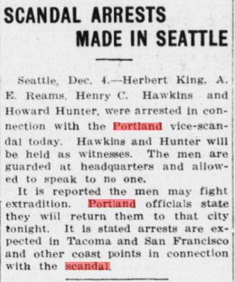 Arrests made in Seattle relating to Portland Vice Scandal